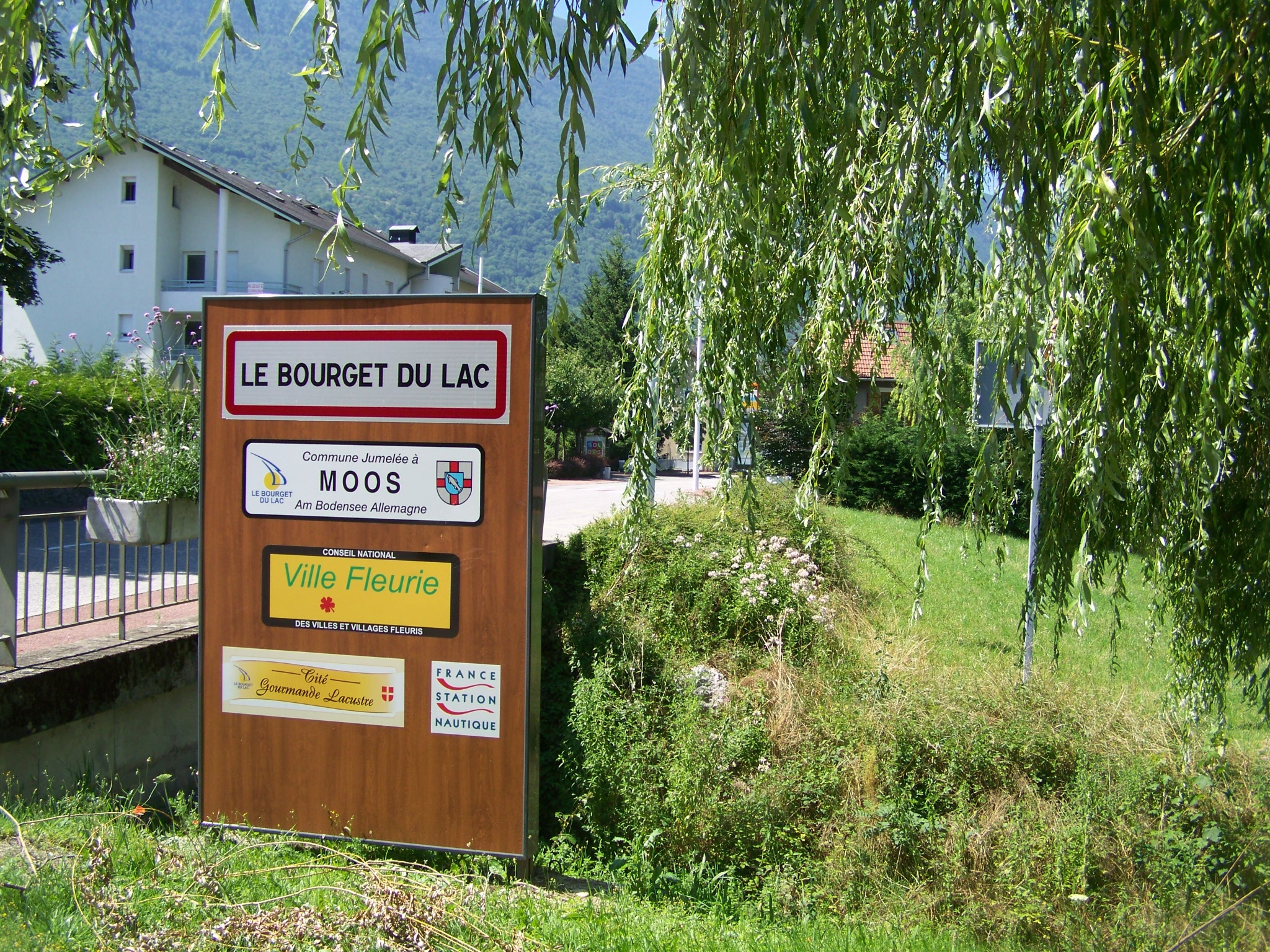 Sign welcoming visitors to the commune of Le Bourget-du-Lac near Chambéry in Savoie, France.